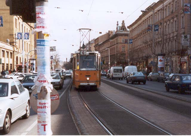 Budapest, traffic